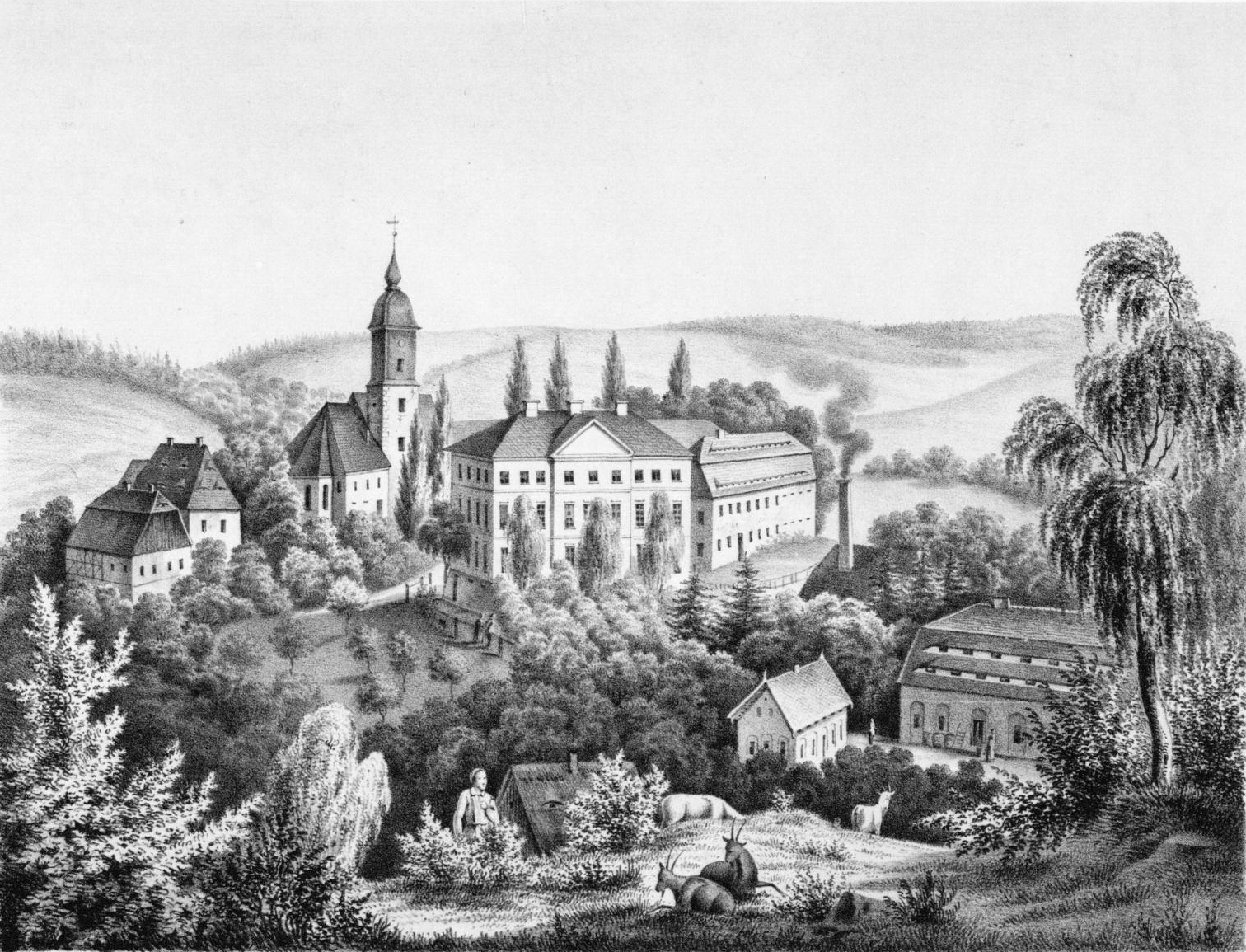 manor Oberschöna in the Erzgebirge